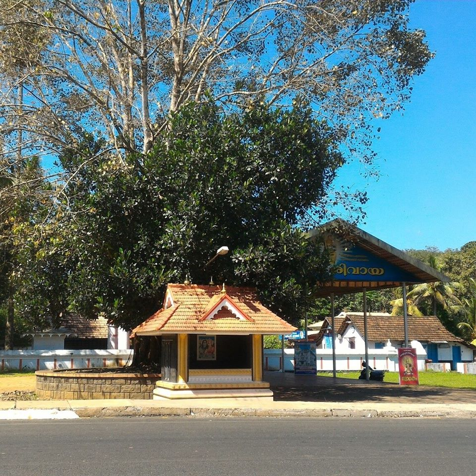 Sree Mahadeva Temple Anthinad PC_Bipin Edayanickattu